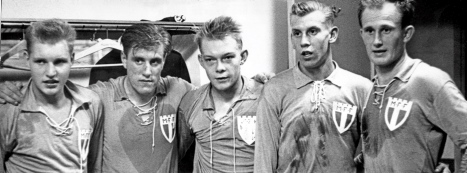 Jan Jeppsson, Rolf Eriksson, Lasse Granström, Bosse Larsson and Ingvar Svahn